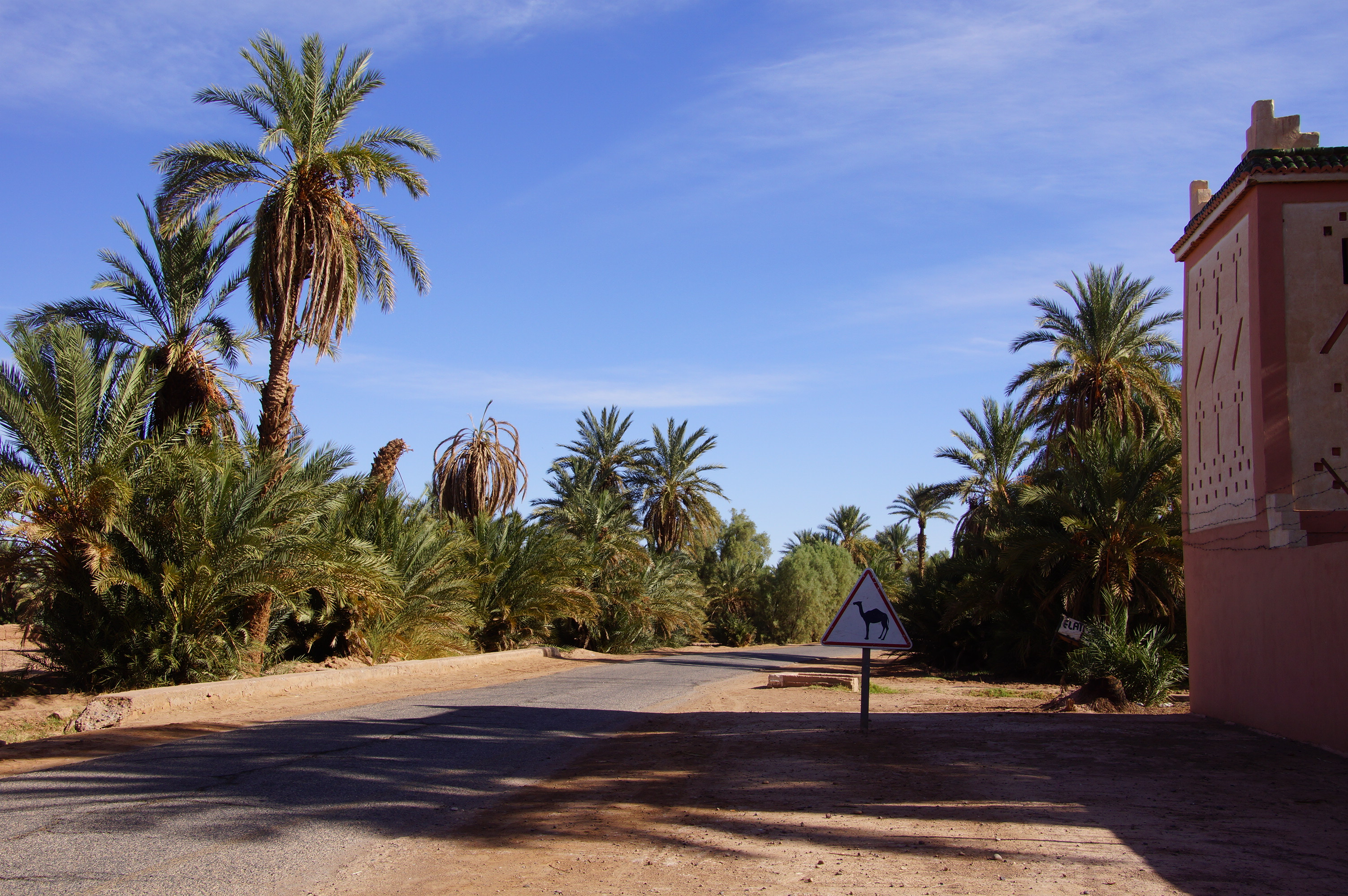 Mind the Camels when leaving M'Hamid El Ghizlane